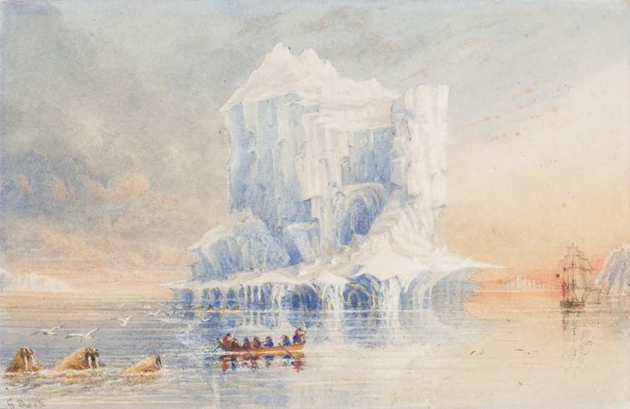 Painting by Admiral Sir George Back (–1878) Alternative names Admiral Sir Back; Sir George BackDescriptionBritish naval officer, explorer and artistDate of birth/death 6 November 1796 / 6 November 1795 23 June 1878 Location of birth/death Stockport, Cheshire Portman Square, LondonAuthority control : Q282922 VIAF: 76464117 ISNI: 0000 0001 2282 0796 ULAN: 500076997 LCCN: n89613186 NLA: 35011625 WorldCat creator QS:P170,Q282922 shows HMS Terror anchored near a cathedral-like iceberg in the waters around Baffin Island, while a smaller boat is rowed nearby